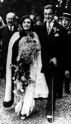 Pola Negri and Prince Serge Mdivani on their wedding day, May 14, 1927.